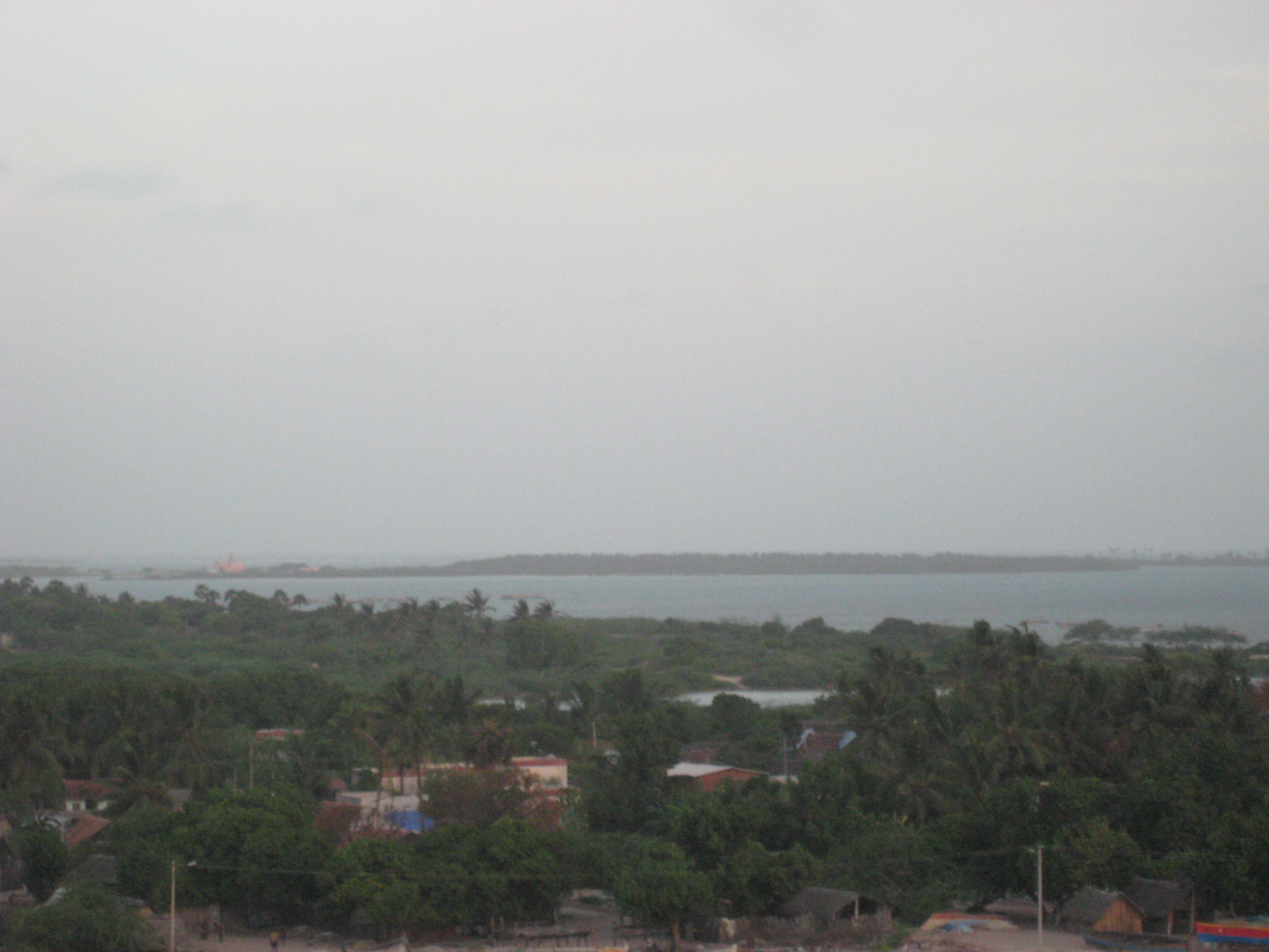 view of a pamban town(ramanathapuram-dt)